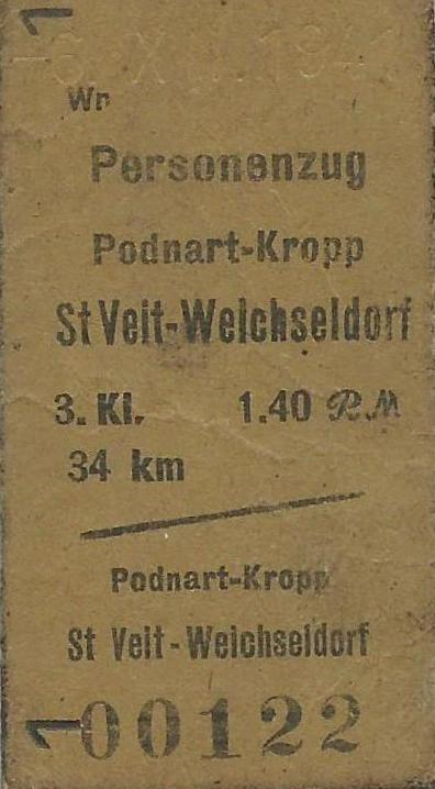 Železniška karta Podnart-Kropp -- St.Veit-Weichseldorf 34 km 6. XII. 1941